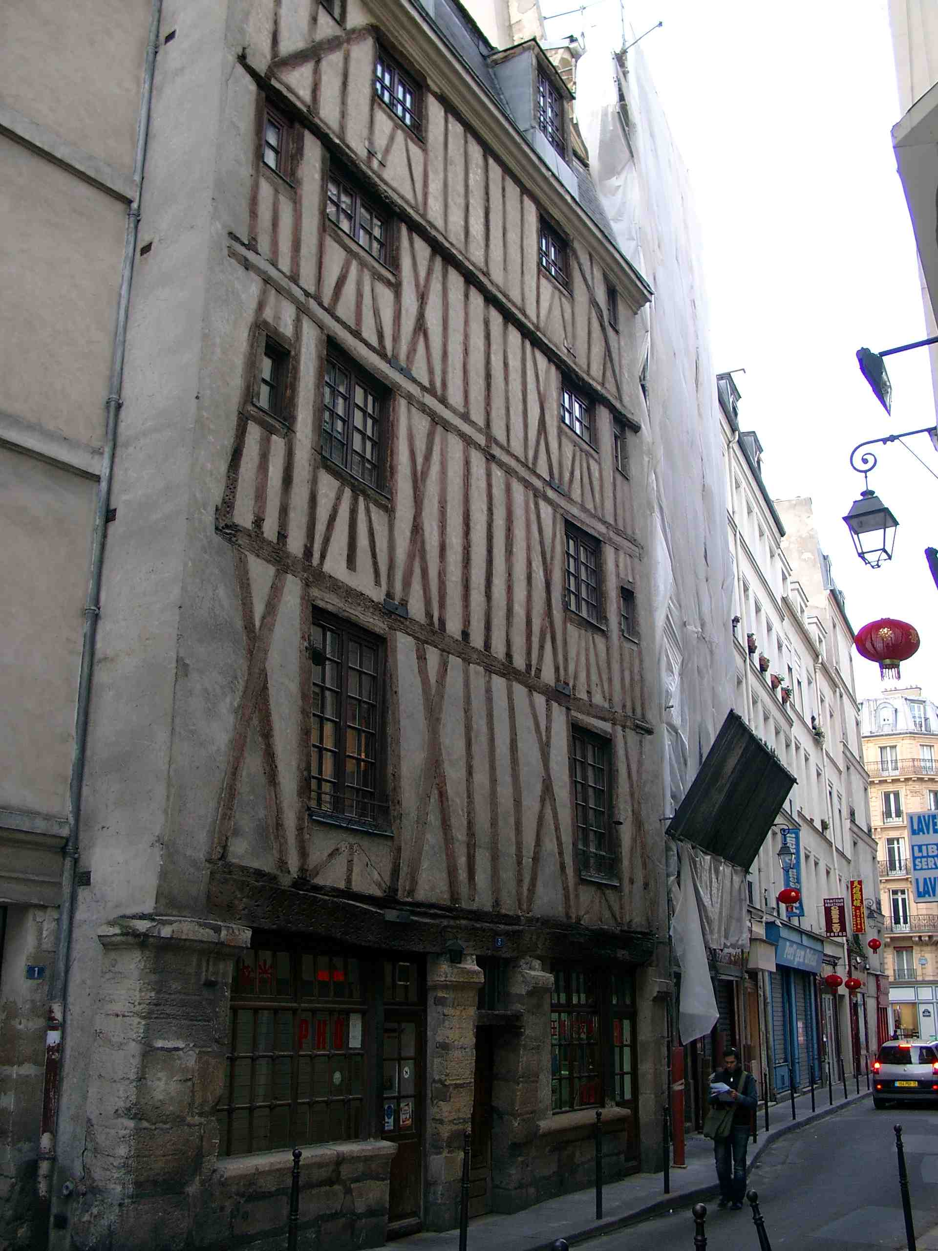 One of the oldest houses in Paris, rue Volta 3